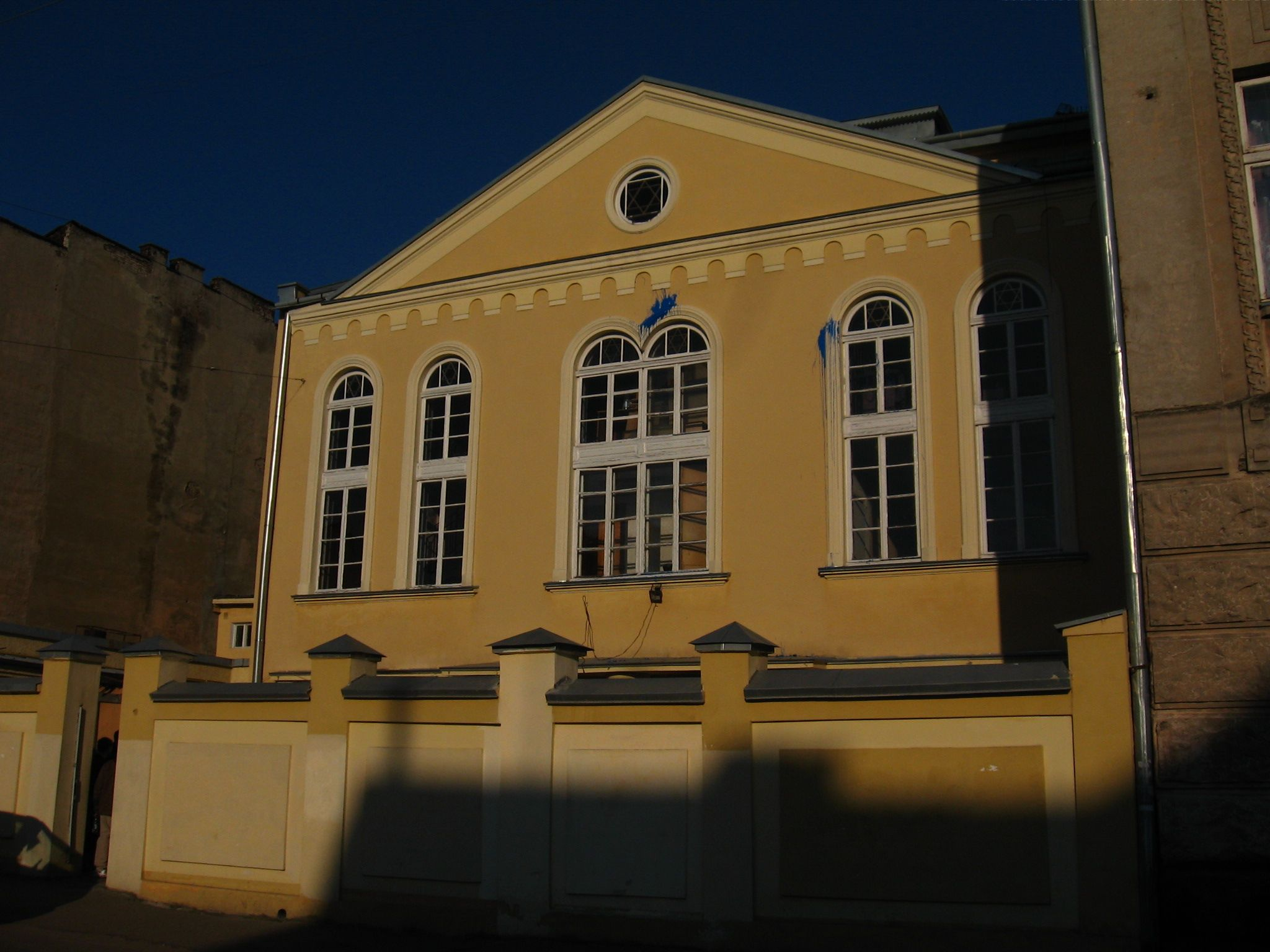 Tsori Gilod Synagogue in Lviv